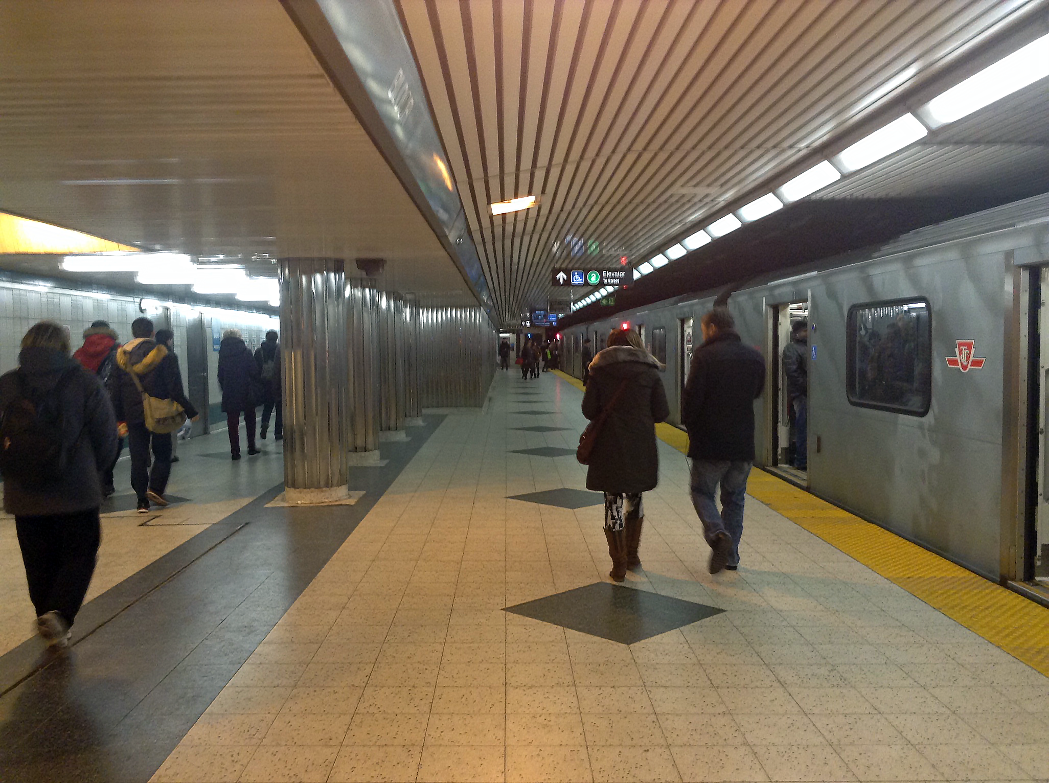 Southbound platform of Bloor-Yonge (TTC)